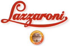 Logo Lazzaroni